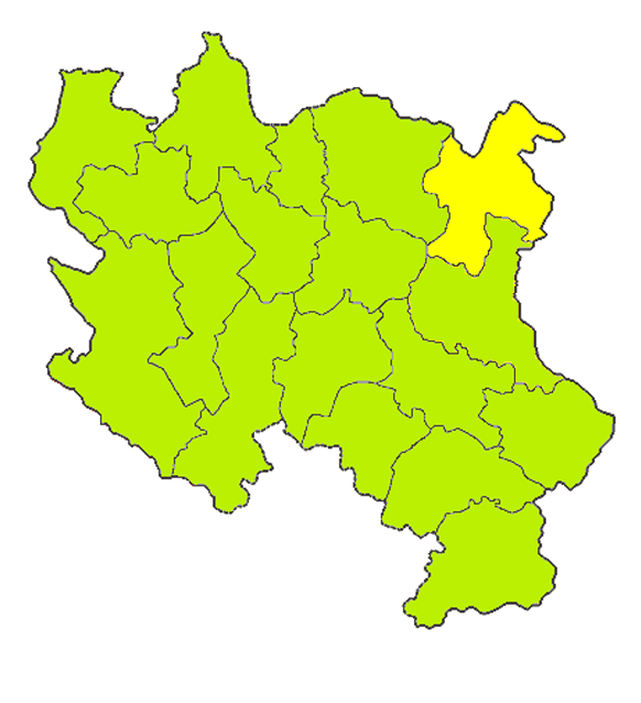 Map of Bor